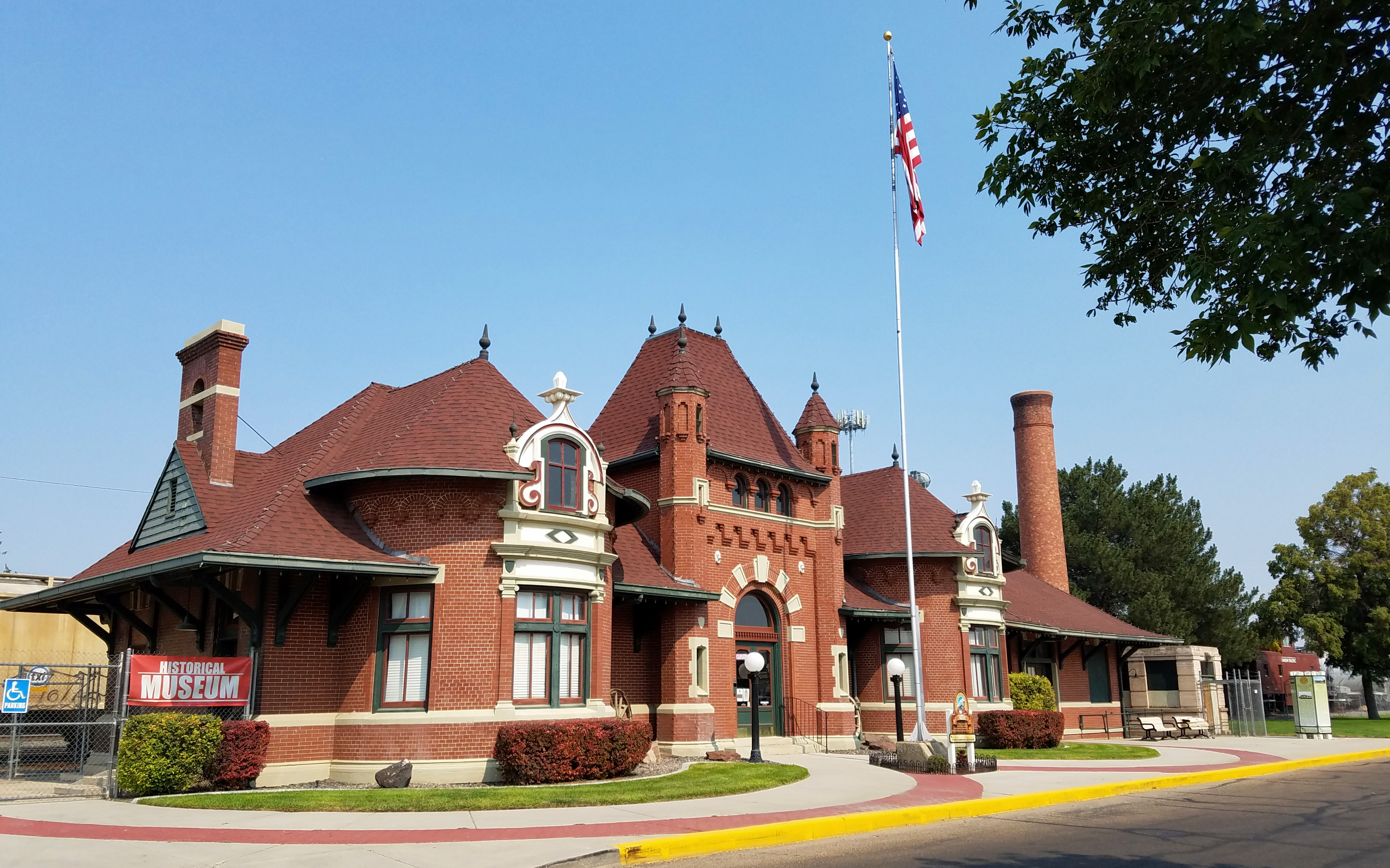 The Nampa Depot (1903) was designed by Nebraska architect Frederick W. Clarke and is listed on the National Register of Historic Places. In 1972 Arthur A. Hart, director of the Idaho State Historical Museum, said of the building, "a massive central block of French Renaissance form is flanked by two advancing Baroque bays that bulge dramatically forward. Dormers above these bays break the roof edge and end in ogee arches with ornate finials."